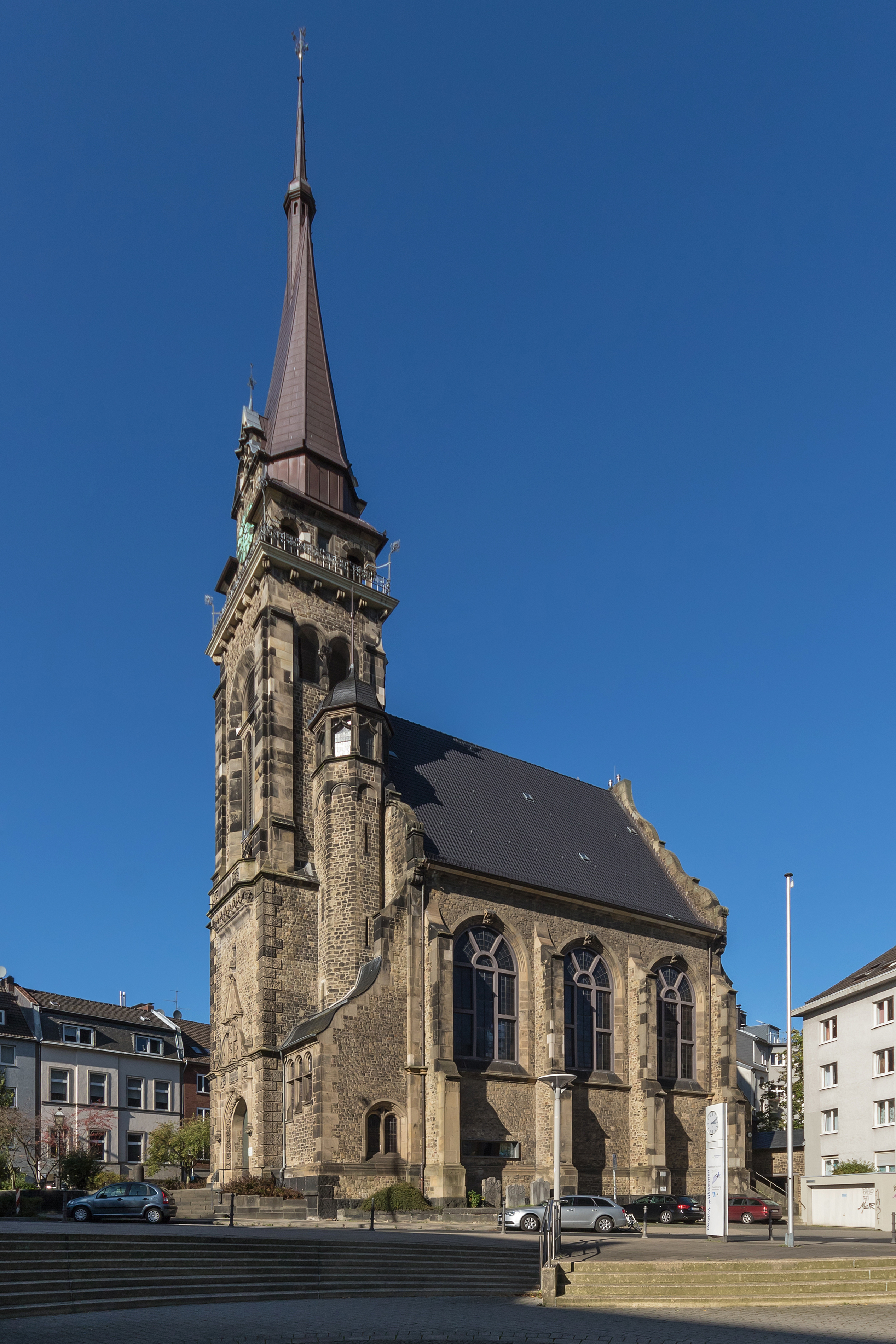 Holy Trinity Church in Aachen (Germany)